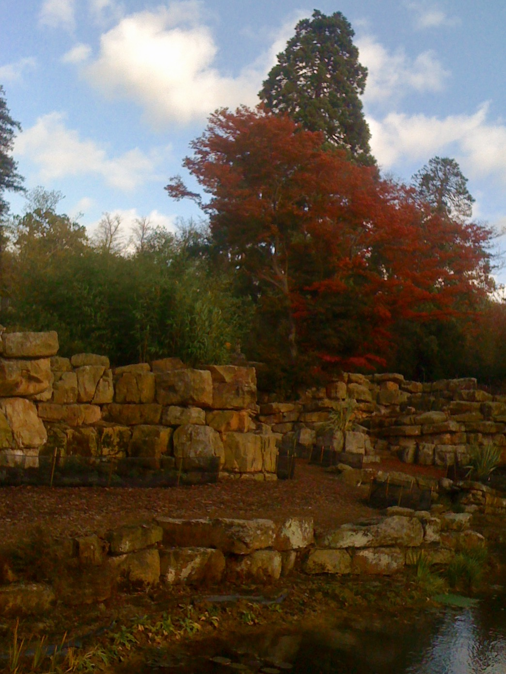 Wellingtonia and pond